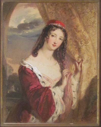 Eliza Sharpe - "Victorian Woman" watercolour. 1874 at latest